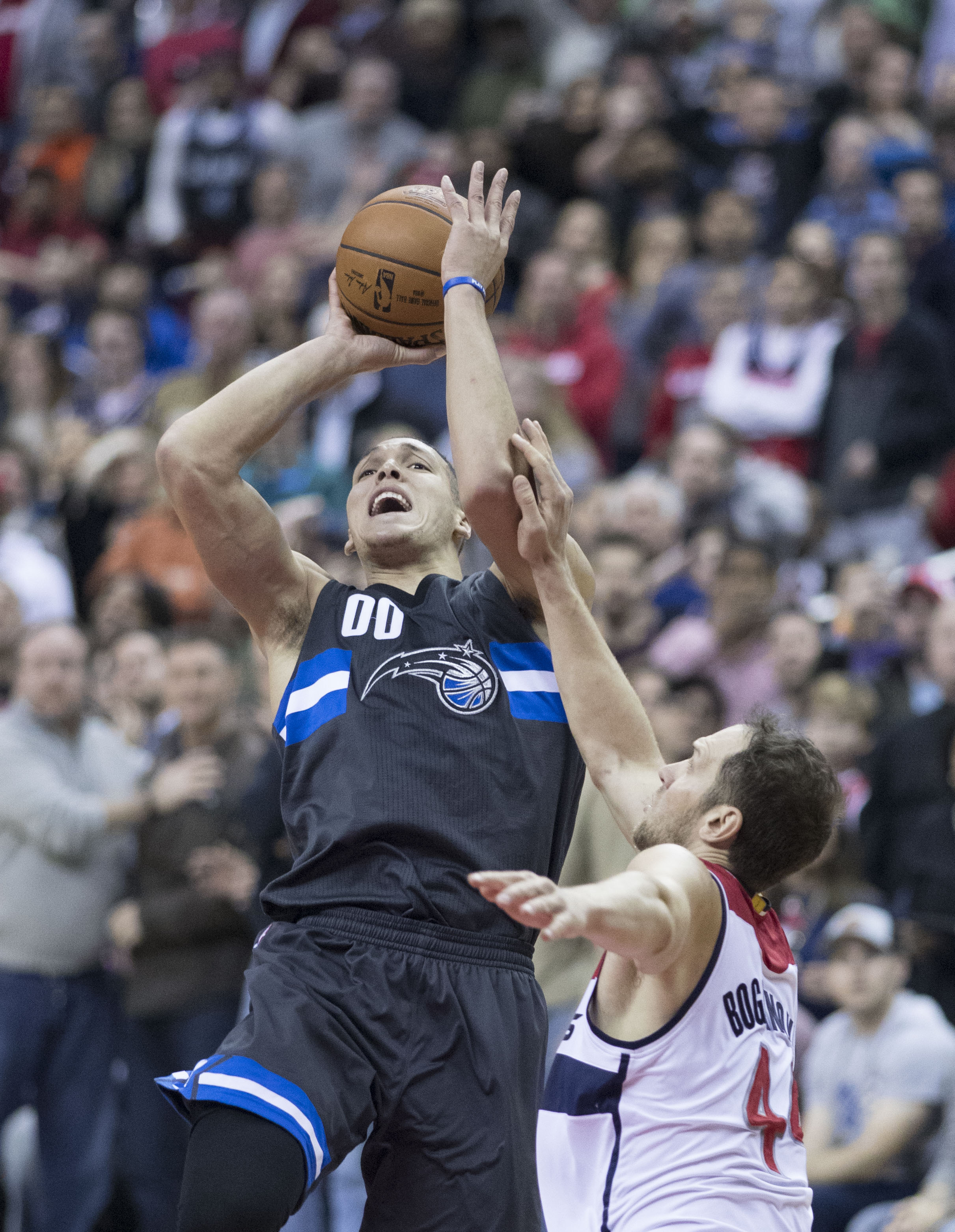 Orlando Magic Aaron Gordon misses the final shot of the game against Washington Wizards Bojan Bogdanovic on March 5, 2017, at the Verizon Center in Washington, D.C. The Washington Wizards defeated the Orlando Magic, 115-114.